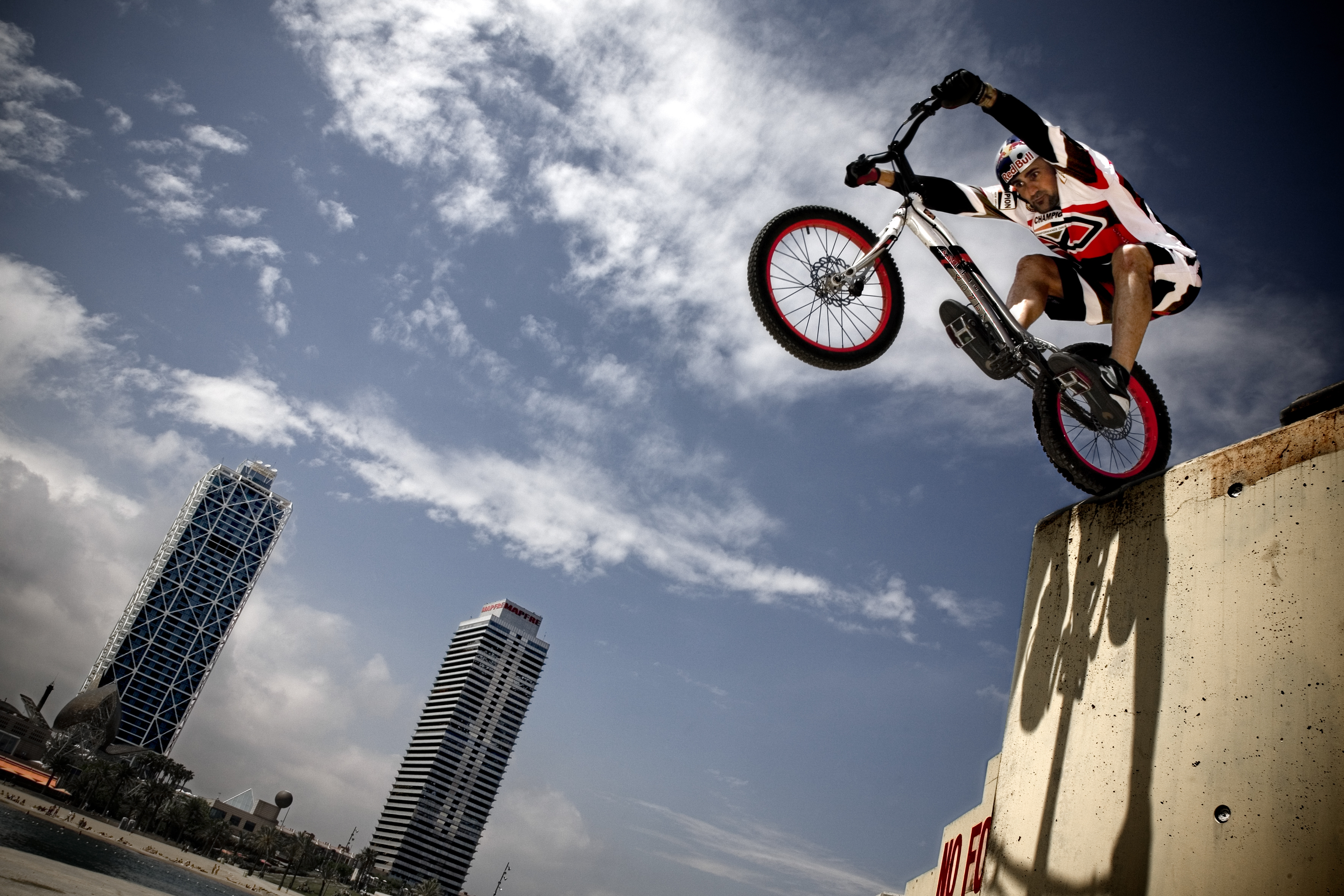 Barcelona Villa Olimpica